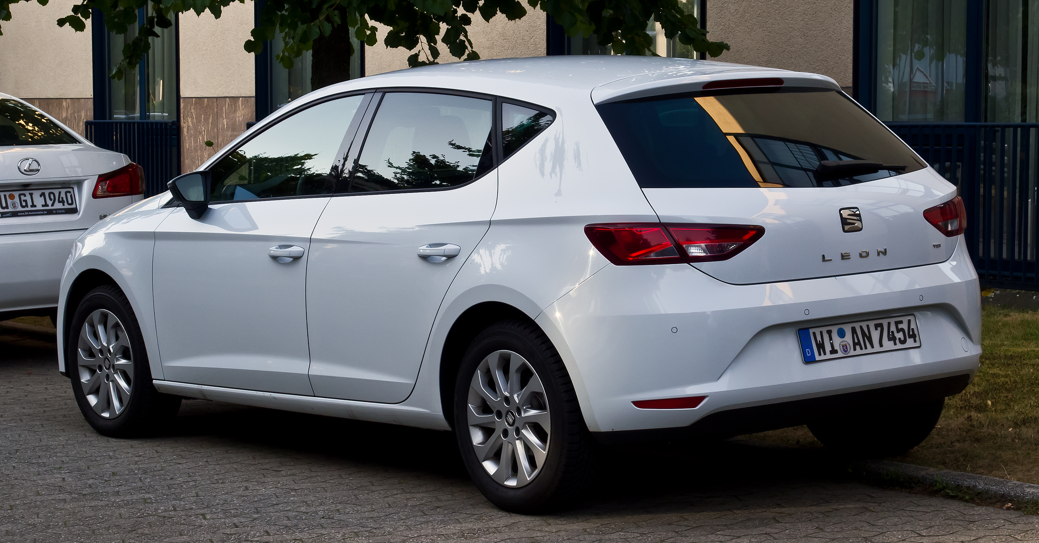 Seat Leon 1.4 TSI Start&Stop Style (III)